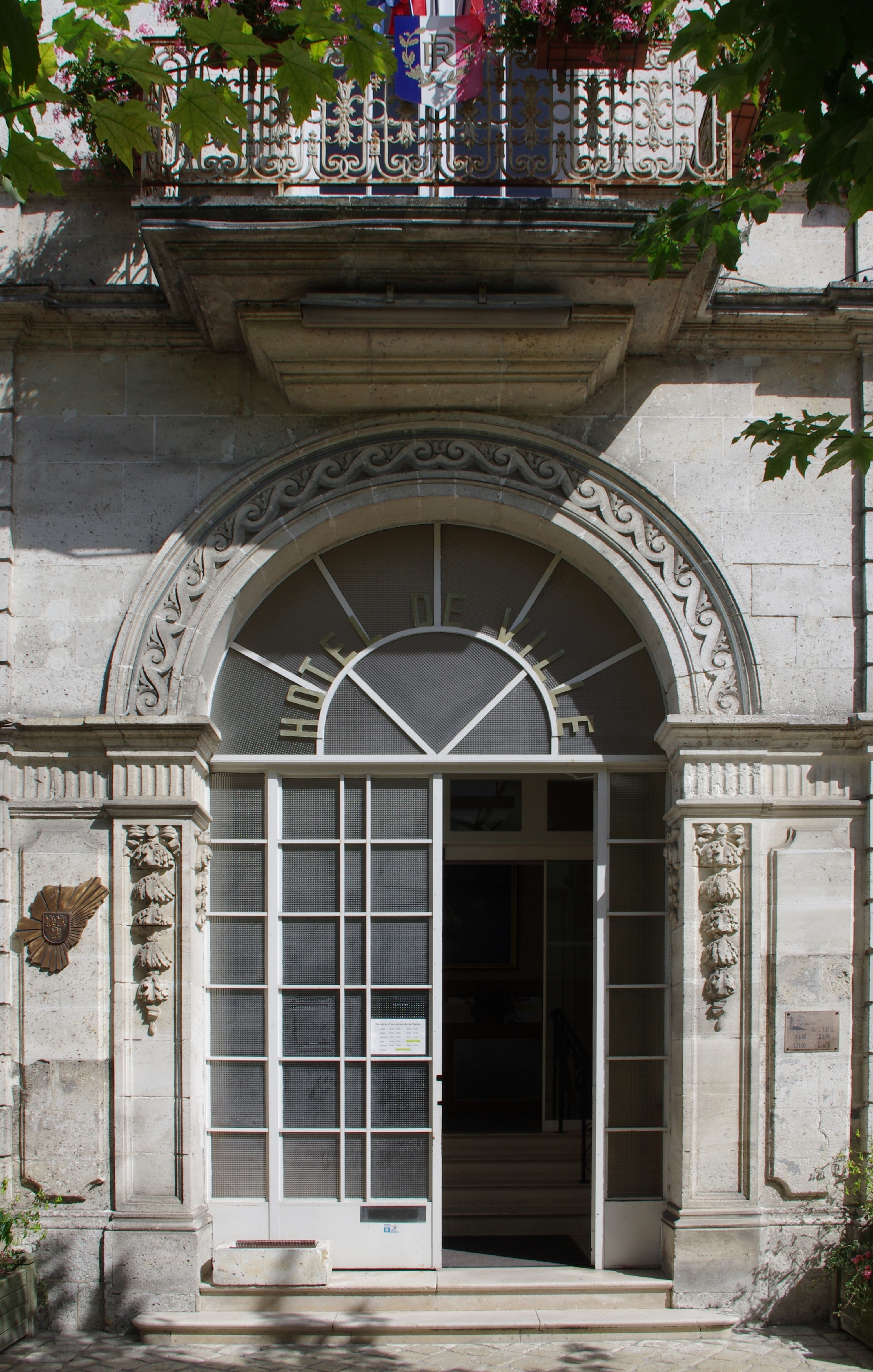 Town hall entrance in Chalais, Charente, France